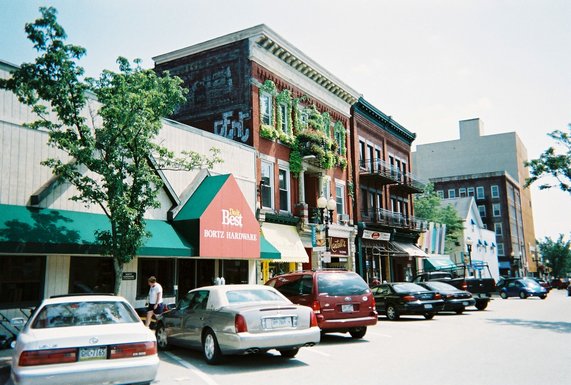 Buildings along South Pennsylvania Avenue, Greensburg, Pennsylvania. At the far left with the red gable is Bortz Hardware, 119 South Pennsylvania Avenue, which comprises a 1903 building and a 1909 building that have been combined and severely altered. The three-story building on the left (with ivy) is 123 South Pennsylvania Avenue. The three-story building to the right (no ivy) is 127 South Pennsylvania Avenue. Both buildings were built in 1900. To the far right, the five-story red brick building is the Berger Building, built in 1906, at 205 South Pennsylvania Avenue. The tall windowless building to the extreme right was built in the early 1960s as an annex to Troutman's Department Store.